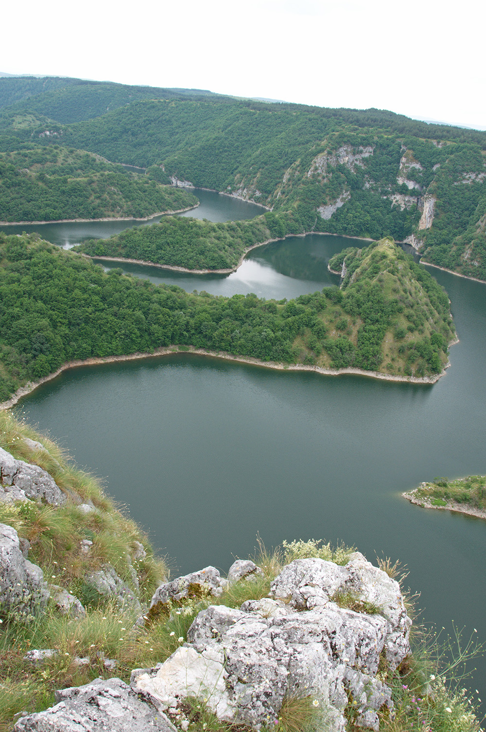 Panoramic scenes of the Pester plateau, karst region in southwestern Serbia. It situated in the area of Raska. The most part of Pešter is located in the municipality of Sjenica. The relief of Pester Plateau is characterized by low, hilly terrain, streams of clean water and vast meadows that are used for grazing sheep and cattle. Pester field is a region of outstanding natural value. A part of Pester is the Uvac River Canyon. In the canyon of the river Uvac nests large colony of eagles, vultures - Gyps fulvus.